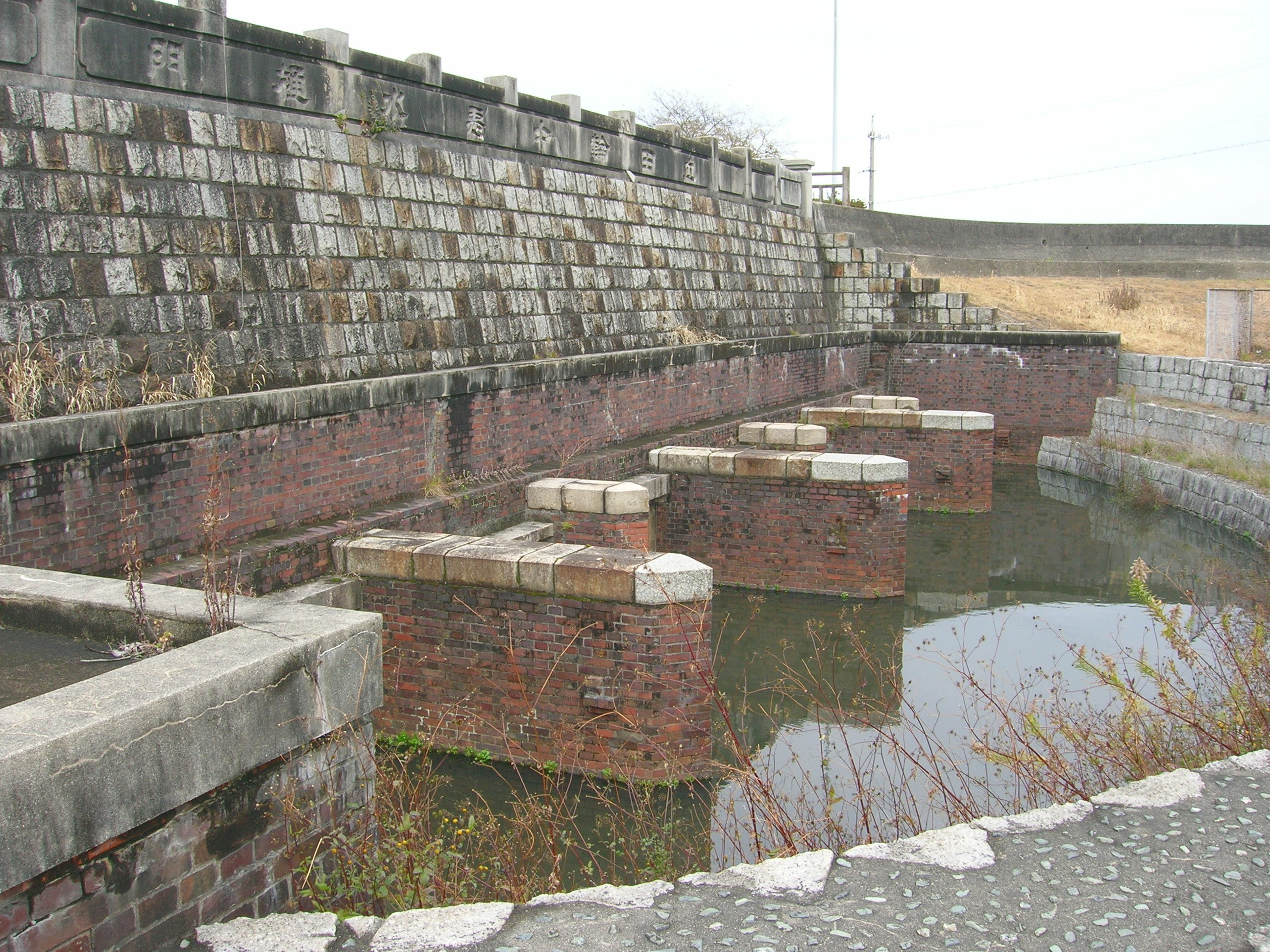 Tatsuta Wajû Jinzôseki Himon (Tatsuta Wajû Drain gate). Loc: Wajû park, Yatomi city, Aichi Prefecture, Japan. 立田輪中人造堰樋門 撮影場所 愛知県弥富市・輪中公園